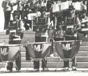 Detail of ML 1976.jpg